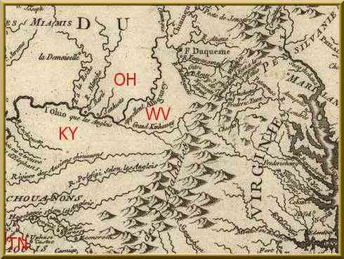 Clip from 1750 map, Remarques sur la carte de l'Amerique Septentrionale published in 1755